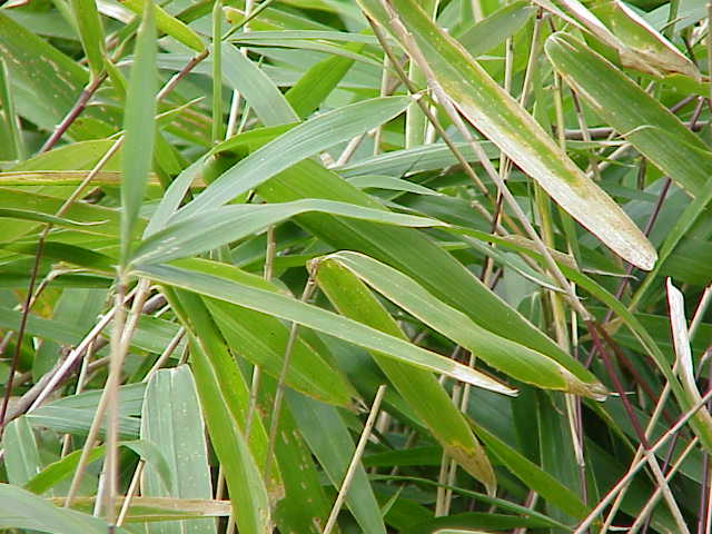 Species: Arundinaria pumila Family: Poaceae Image No. 1